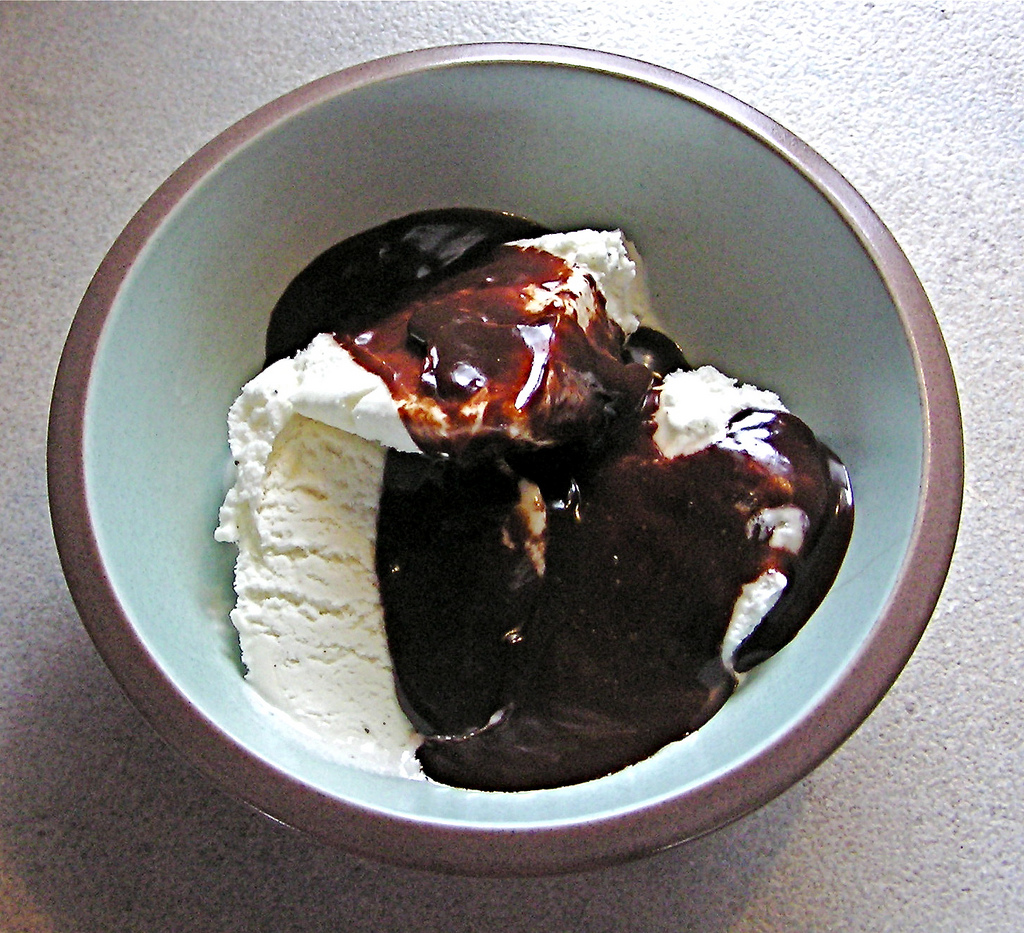 A bowl of vanilla icecream with homemade chocholate sauce. Dame blanche (vanille-ijs met warme chocoladesaus) Coupe Dänemark (Vanilleeis mit heißer Schokoladensauce übergossen)